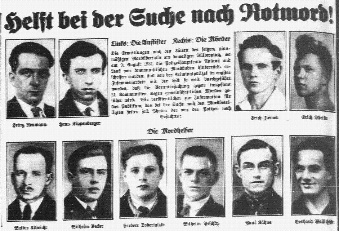 "Red Murderers!" - Wanted Poster published by the Berlin Police in September of 1933 announcing that warrants of arrest have been issued for ten people for the killing of two Police Officers in 1931. Pictures of the alleged perpetrators and displayed on the poster. Among them are the former Communist Reichstag Deputies Hans Kippenberger and Walter Ulbrich as well as Erich Mielke, who later became the head of the Ministerium für Staatssicherheit, the East German secret service.